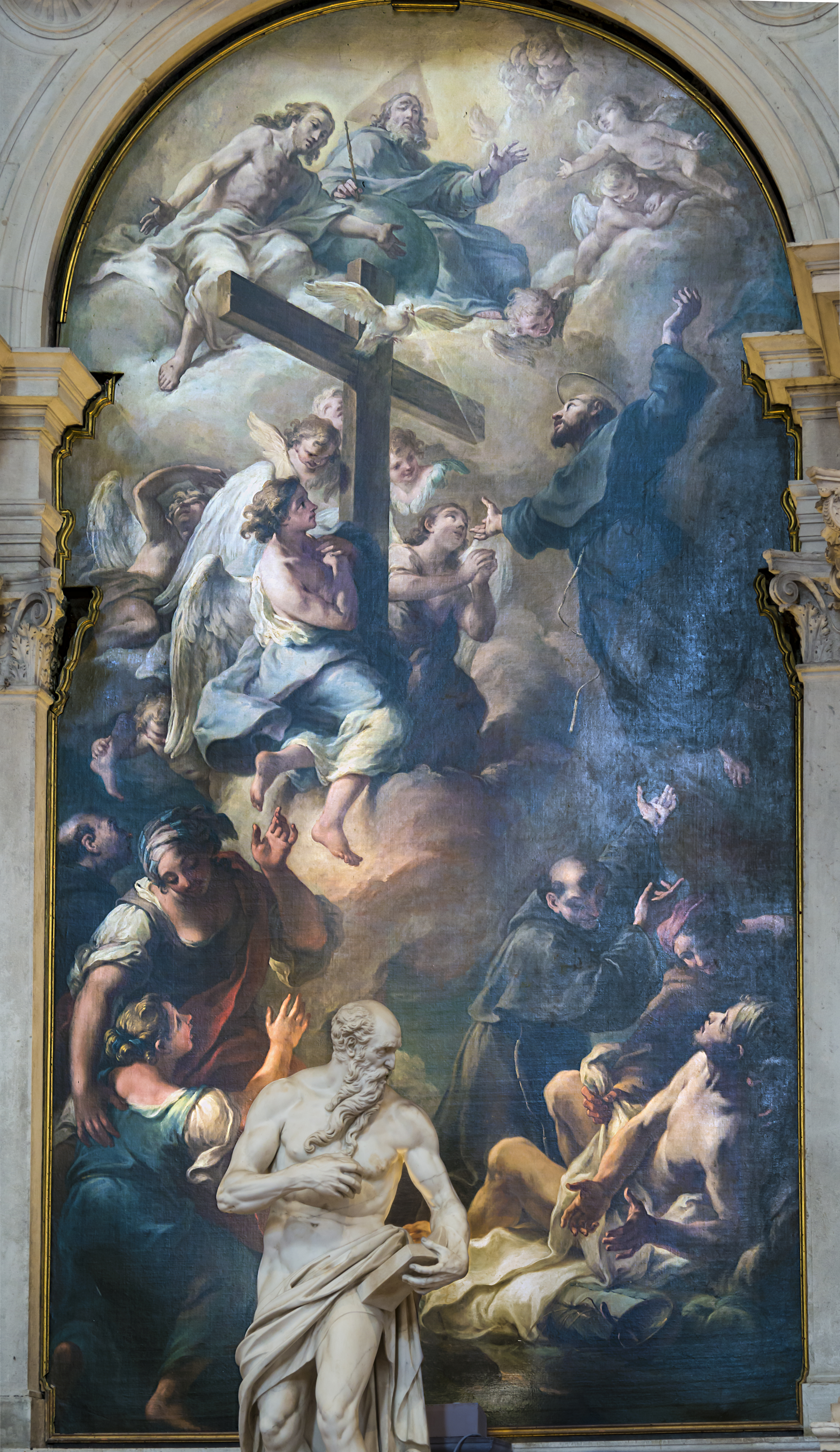 The right side of the nave of the Santa Maria Gloriosa dei Frari. Altarpiece table: : The Miracle of St. Joseph of Cupertino by Giuseppe Nogari.